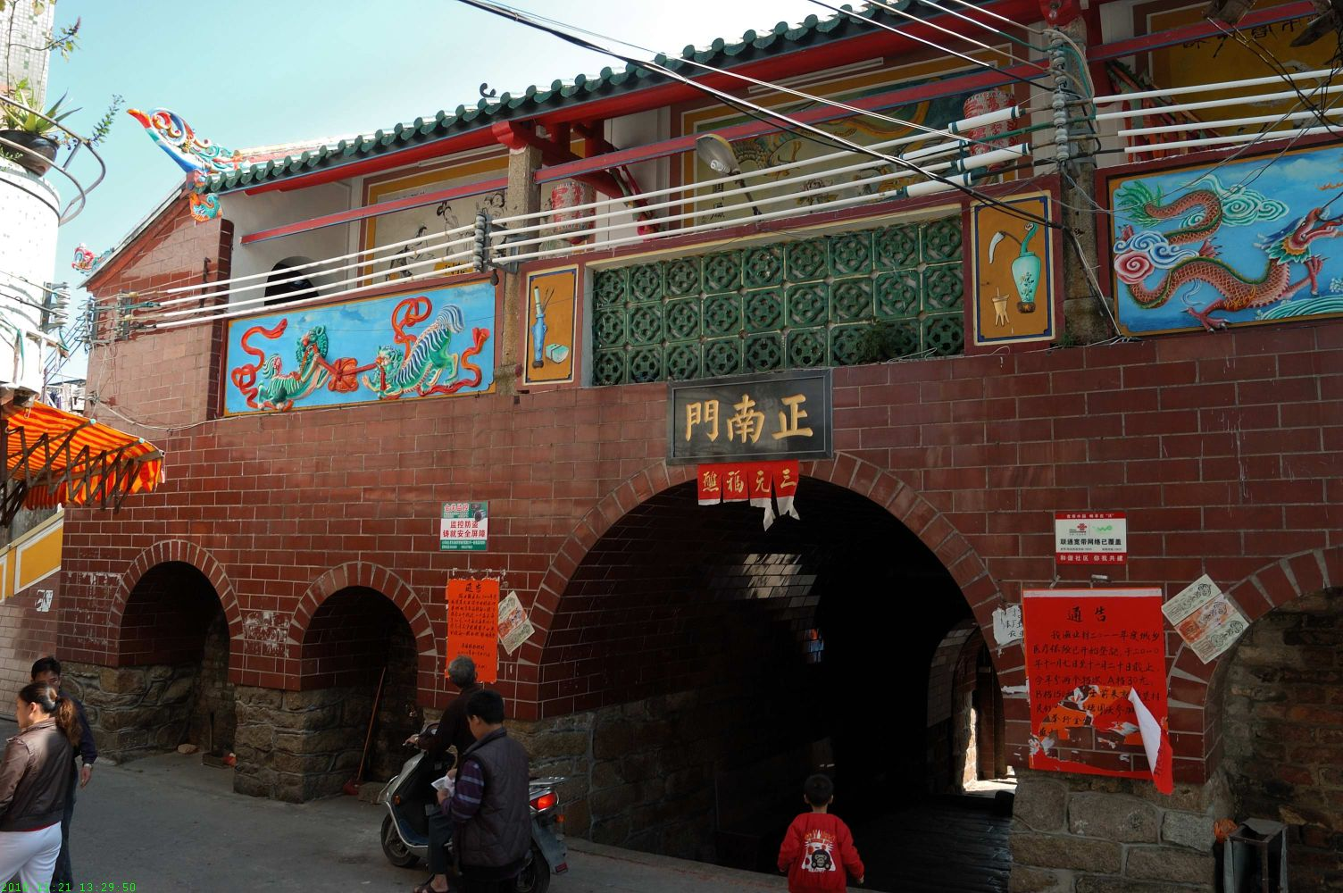 Ping Hai old city south gate